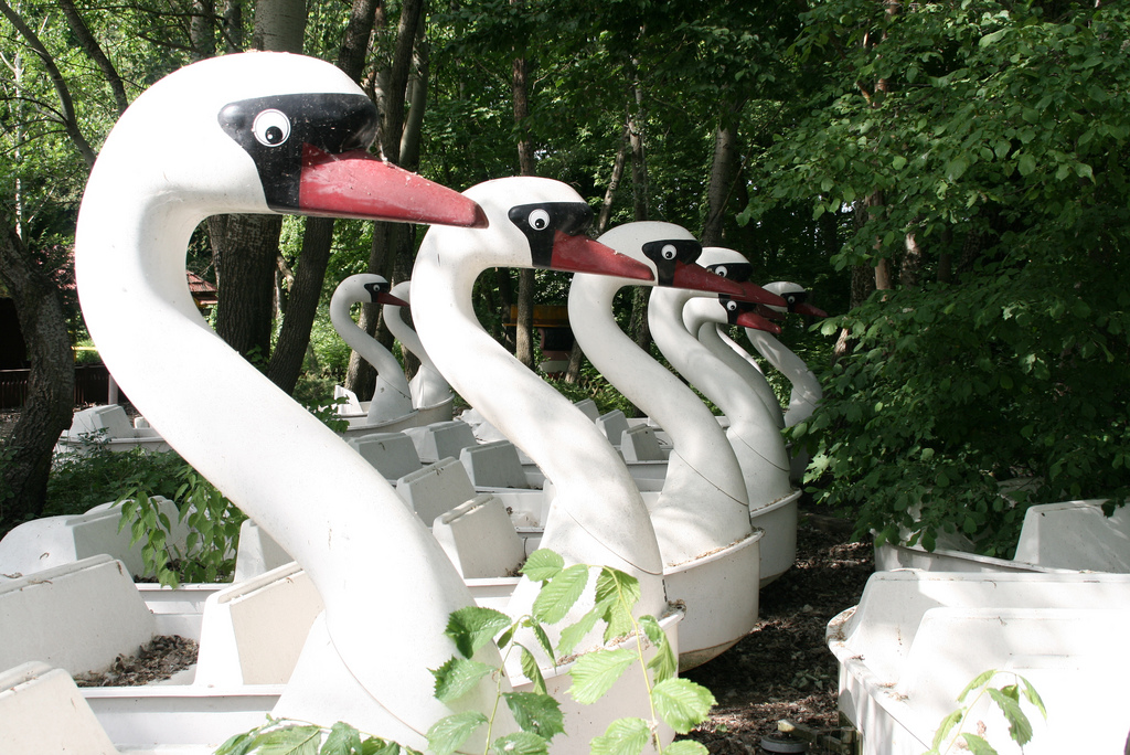 Picture of swan boats in busted Spree Park